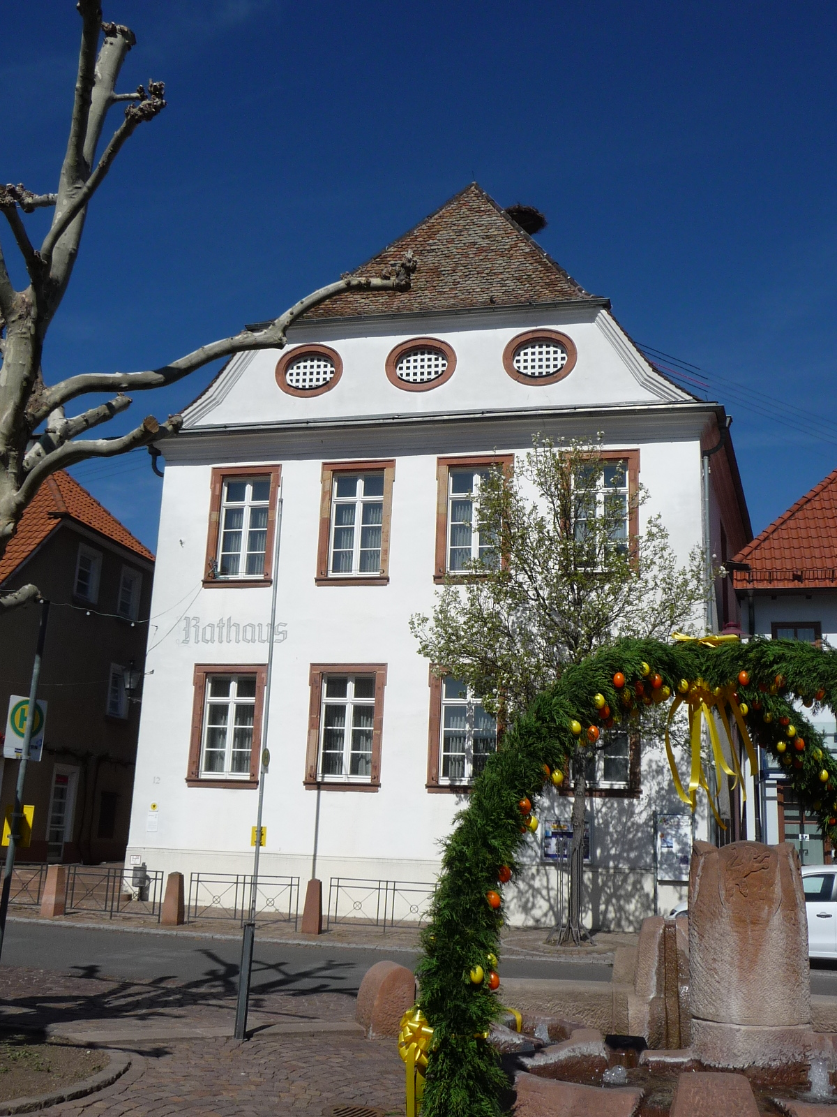 Kirrweiler in Rhineland-Palatinate, Germany